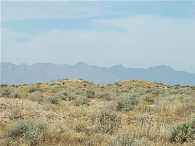 Hohokam Pima National Monument — a Hohokam cultural site, in Pinal County, Arizona. Currently closed to the public.